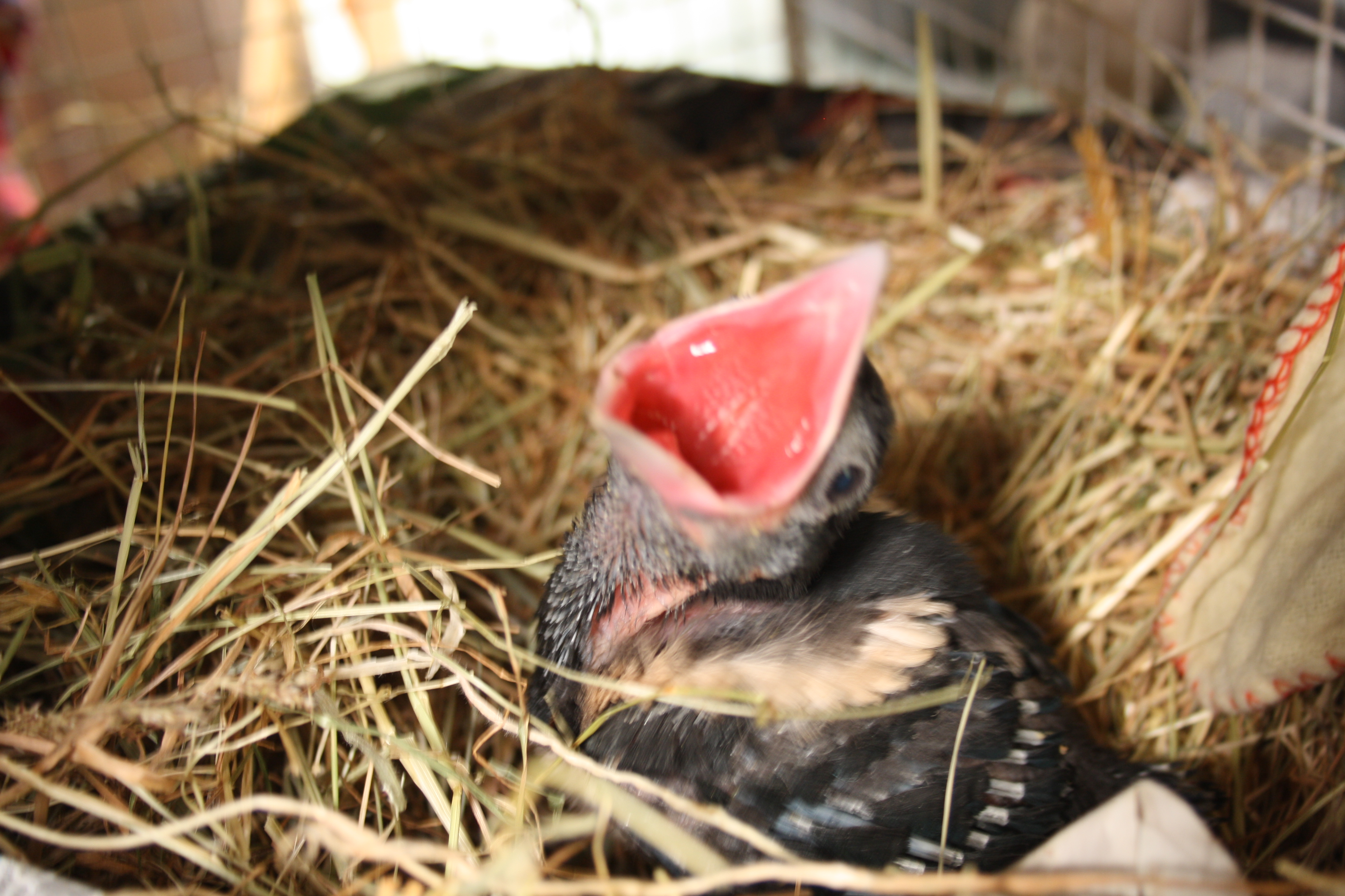 young magpie